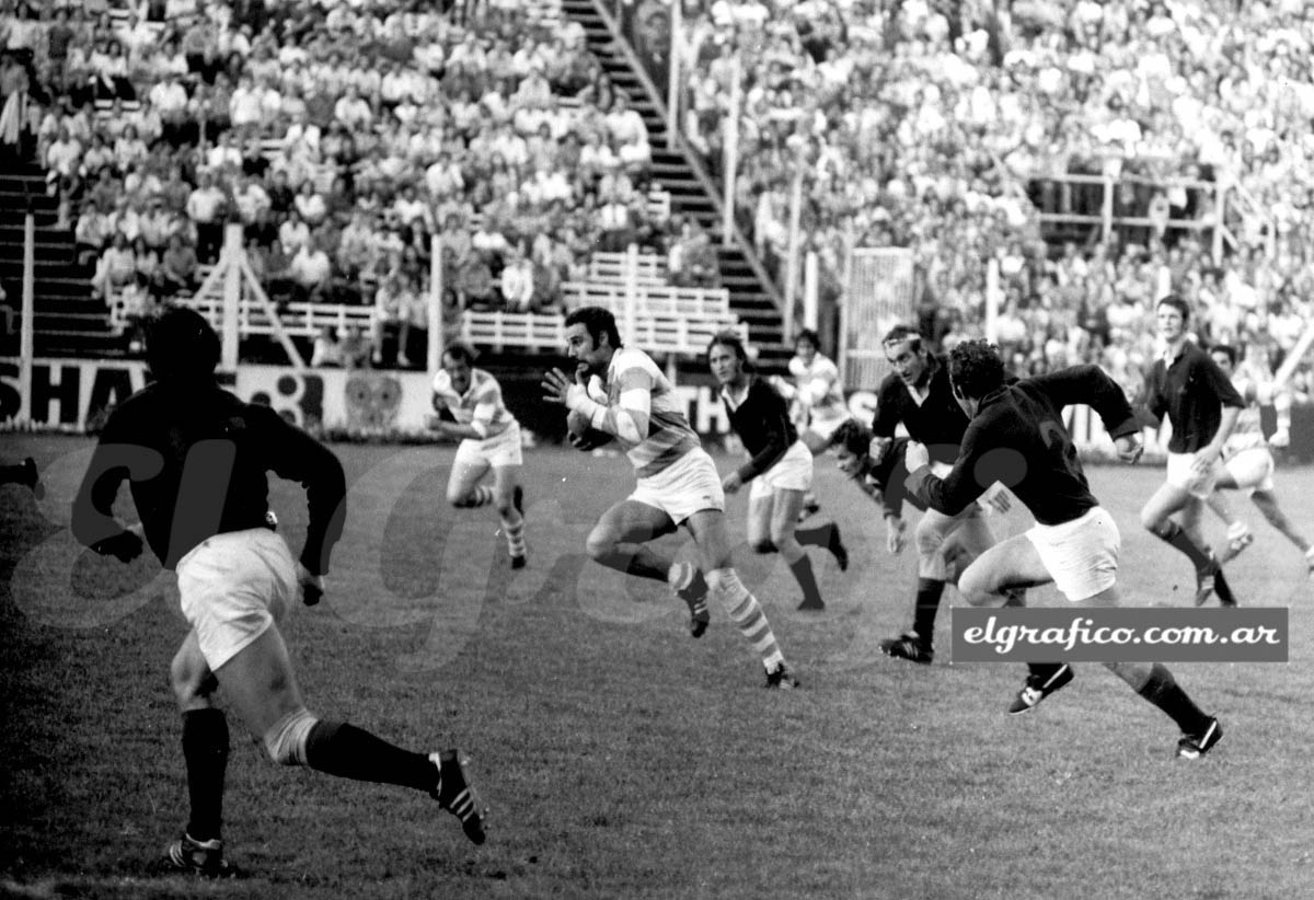 Argentina v. South Africa, rugby union match at Ferro C. Oeste. Alejandro Travaglini running with the ball.